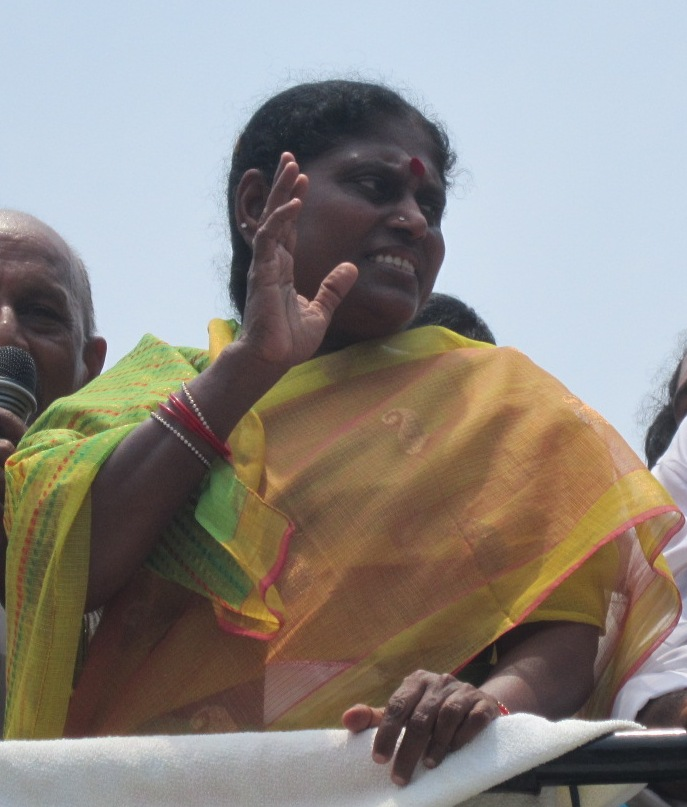 YSR congress party honorable chaipersan